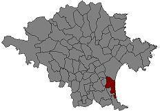 Location of Sant Pere Pescador in Alt Empordà